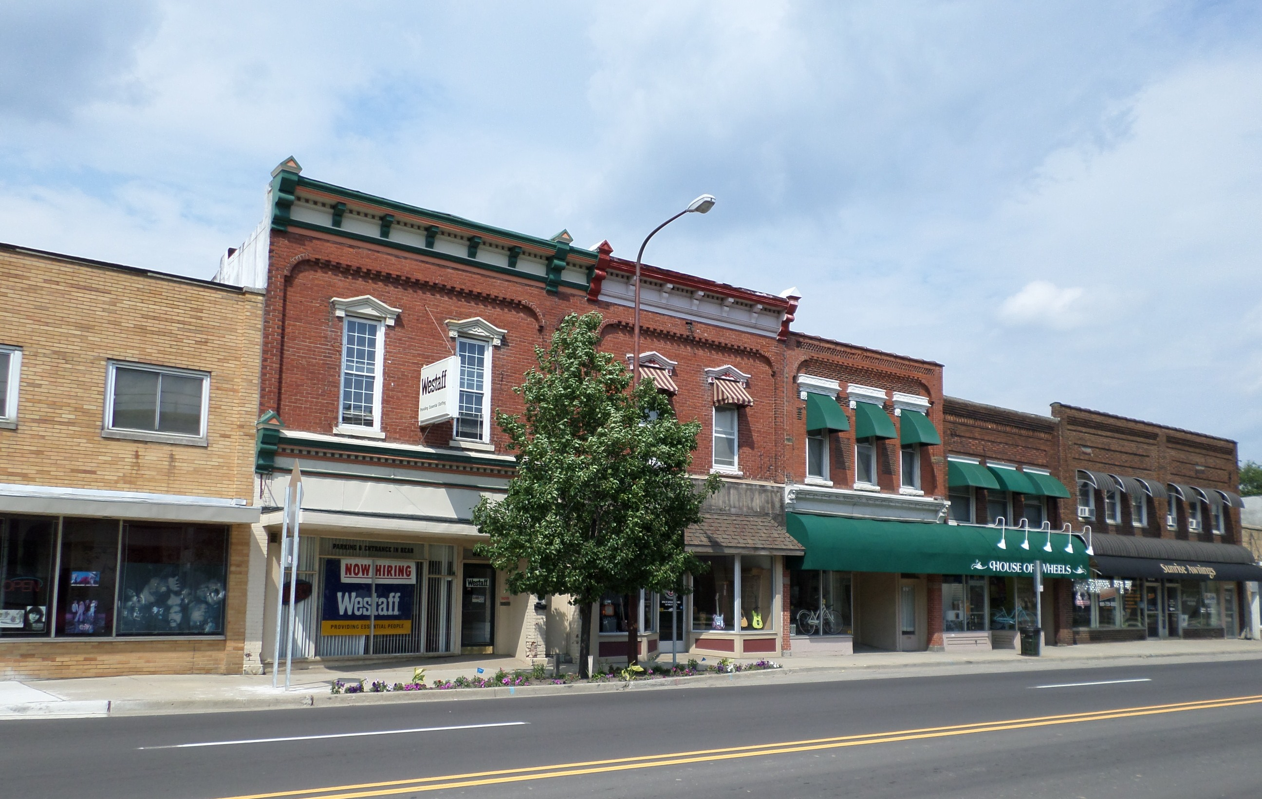 Several buildings along W. Main St. in Owosso, MI.